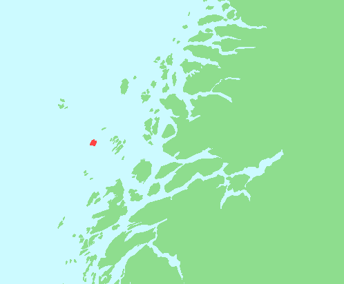 Locator map of Lovund, Nordland, Norway